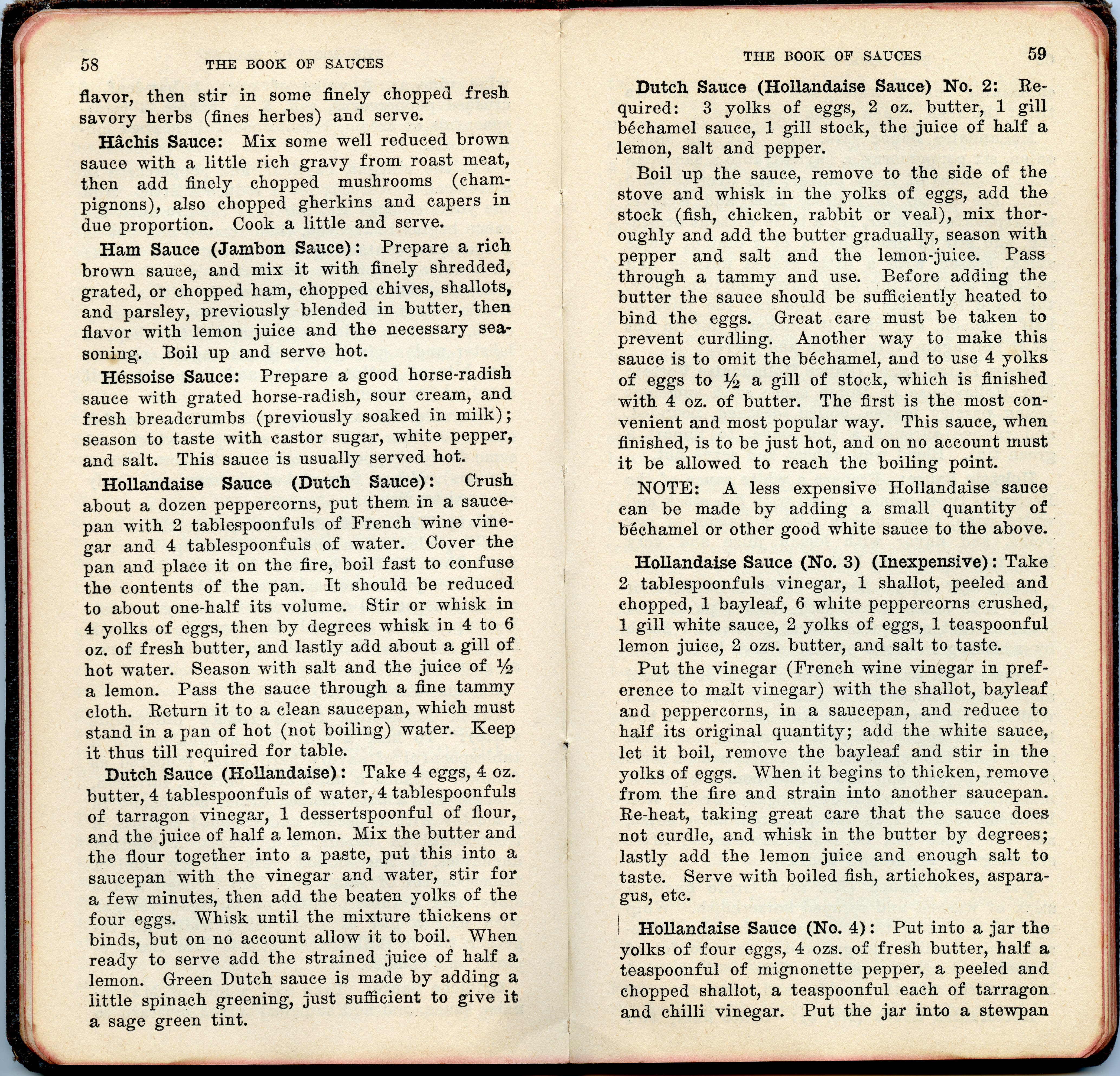 Recipe for the original versions of Hollandaise sauce. from the Book of Sauces owned by Ed Hill and used at the Sacramento Zombie Hut